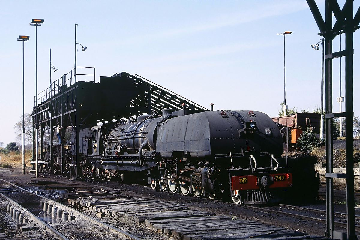 No 747 a member of the heavy NRZ class 20A Garratt at the coal stage of Dete station